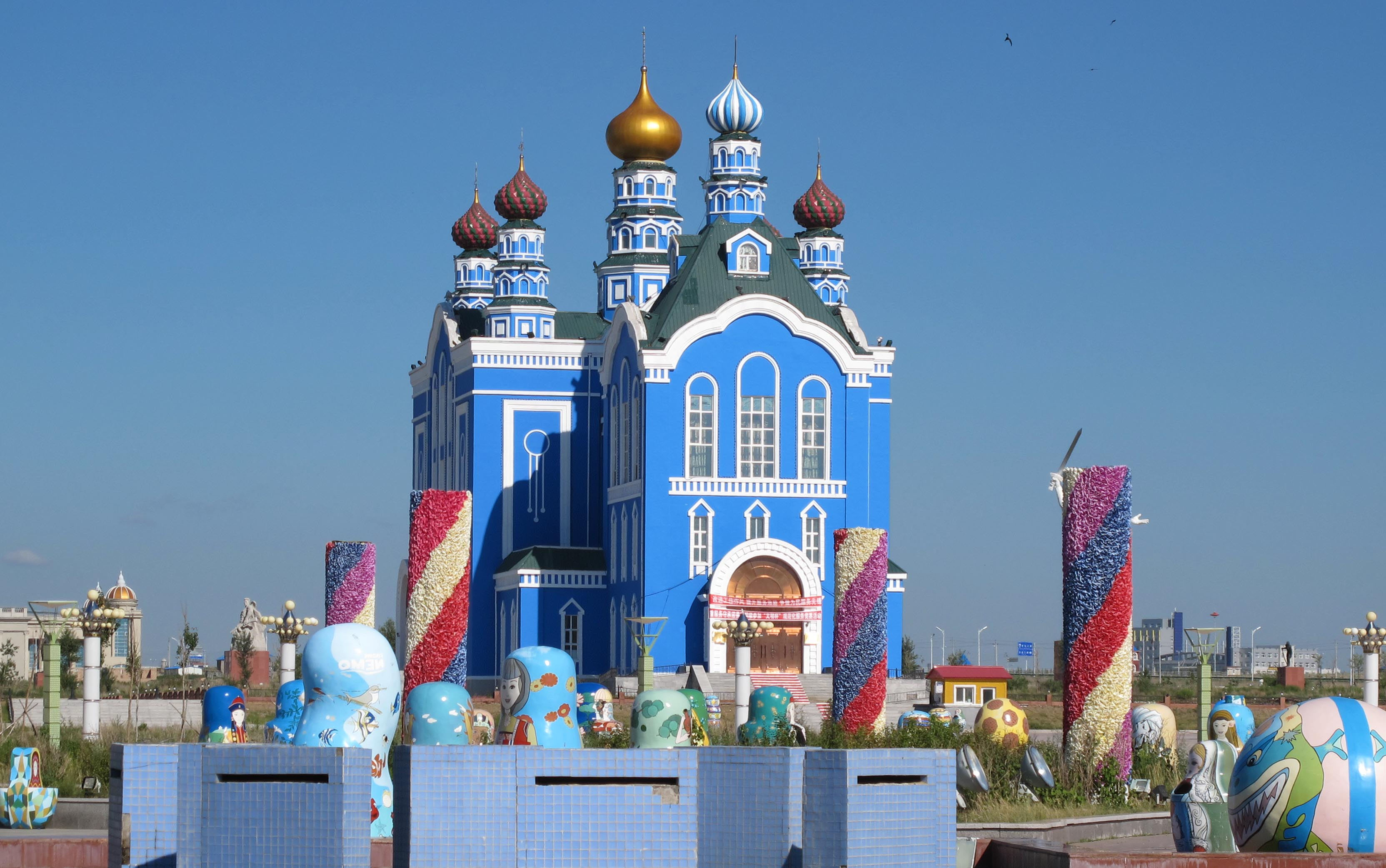 Matryoshka Square of Manzhouli,Inner Mongolia,China.